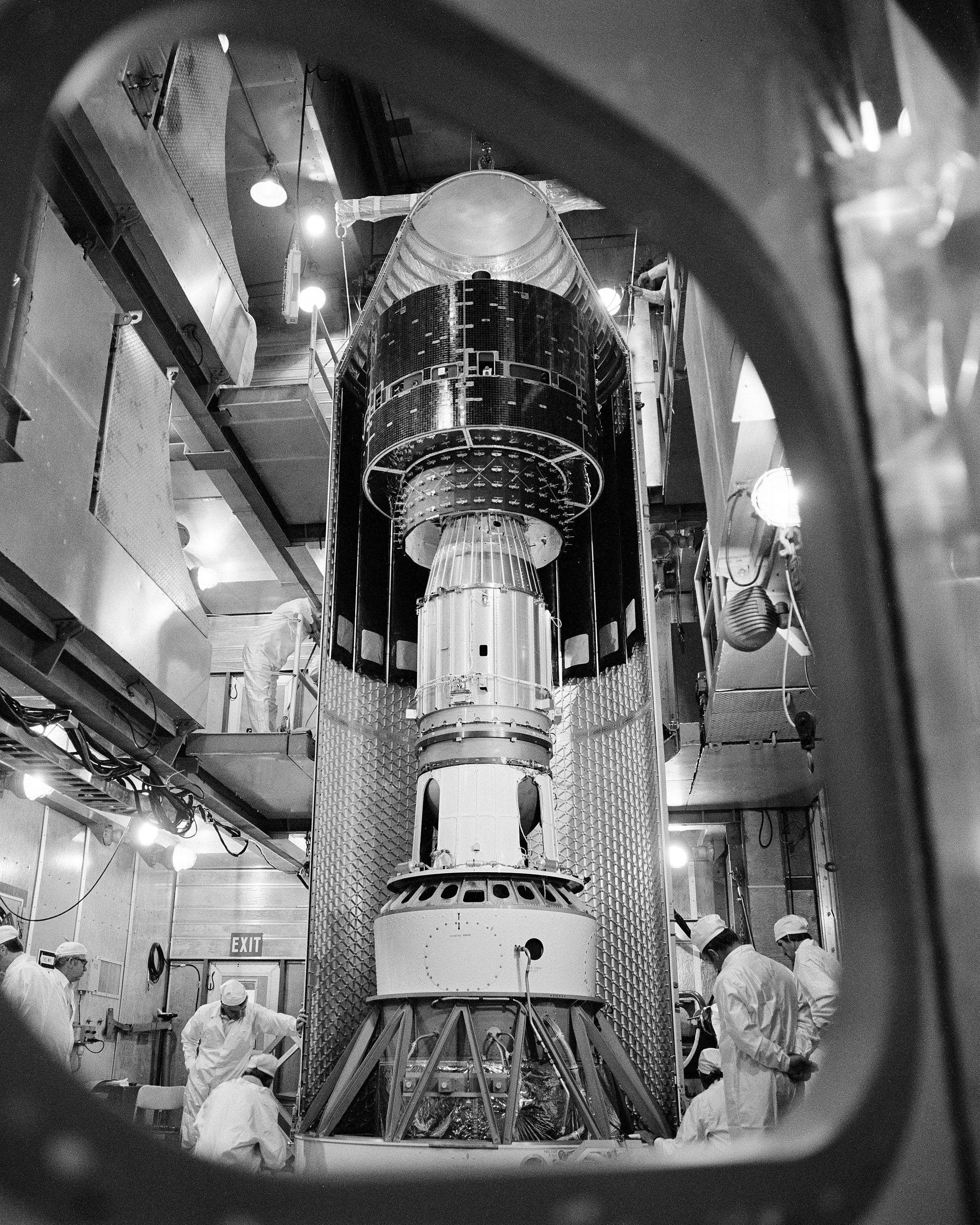 CAPE CANAVERAL, Fla. -- At Cape Canaveral Air Force Station in Florida, the Geostationary Operational Environmental Satellite A (GOES-A) was encapsulated inside its payload fairing aboard a Delta rocket at Complex 17. GOES-A is being launched by the Kennedy Space Center for the National Oceanic and Atmospheric Administration and will provide round-the-clock coverage of the powerful natural forces creating the weather in the Western Hemisphere.